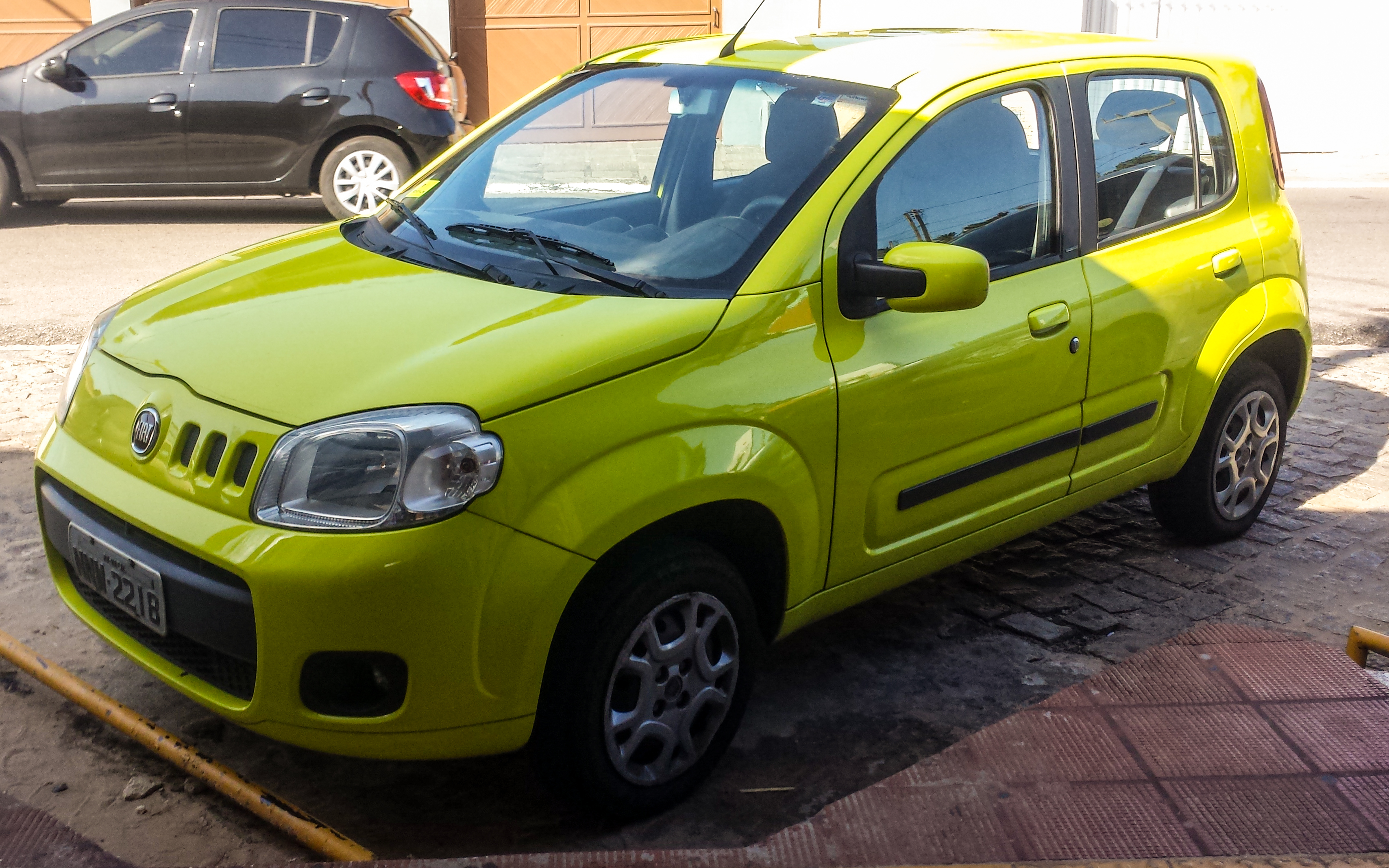 Fiat Novo Uno